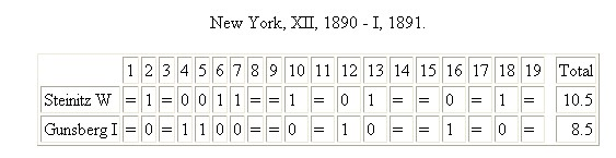 World Chess Championship 1890 Steinitz - Gunsberg Title Match